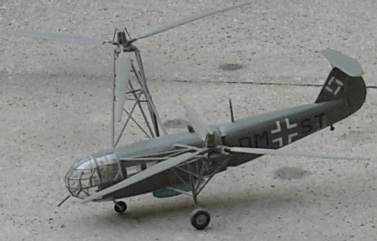 Focke-Achgelis Fa 223 model picture. More pics of the same model can be found on